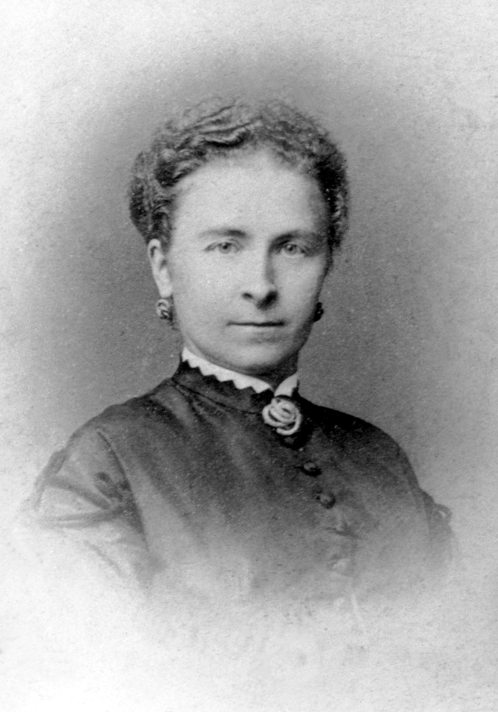 Sophie Marie Opel (née Scheller), wife of Adam Opel